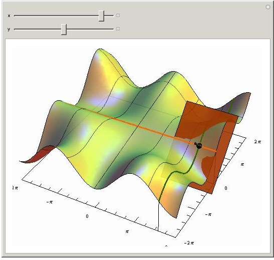 made myself